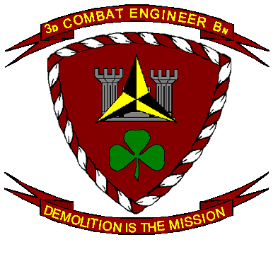 Emblem designed for reactivation of 3d Combat Engineer Battalion including elements of 3d Marine Division's emblem as well as Combat Engineer Company, Combat Assault Battalion.